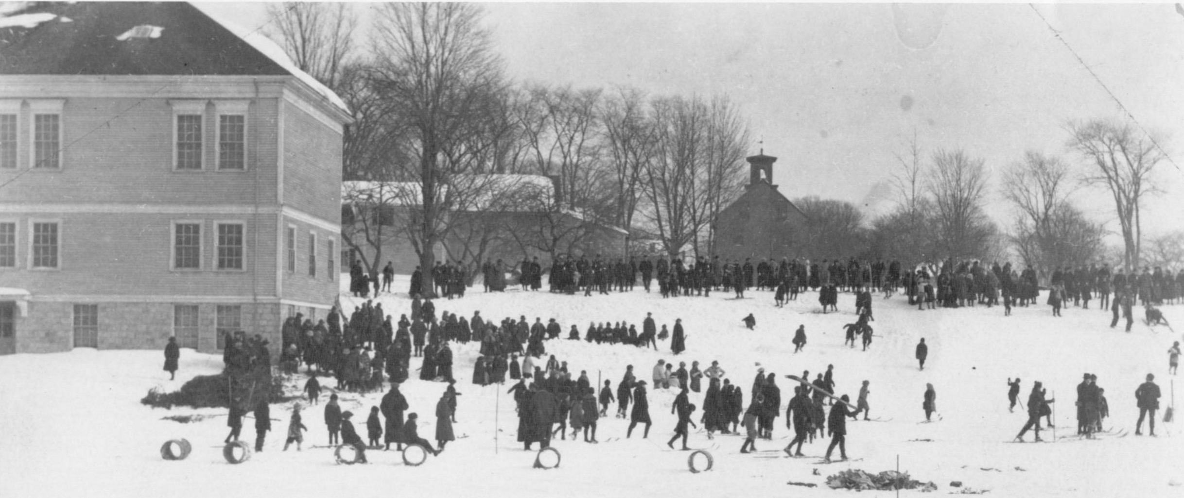 Brickyard Hollow, Yarmouth, Maine